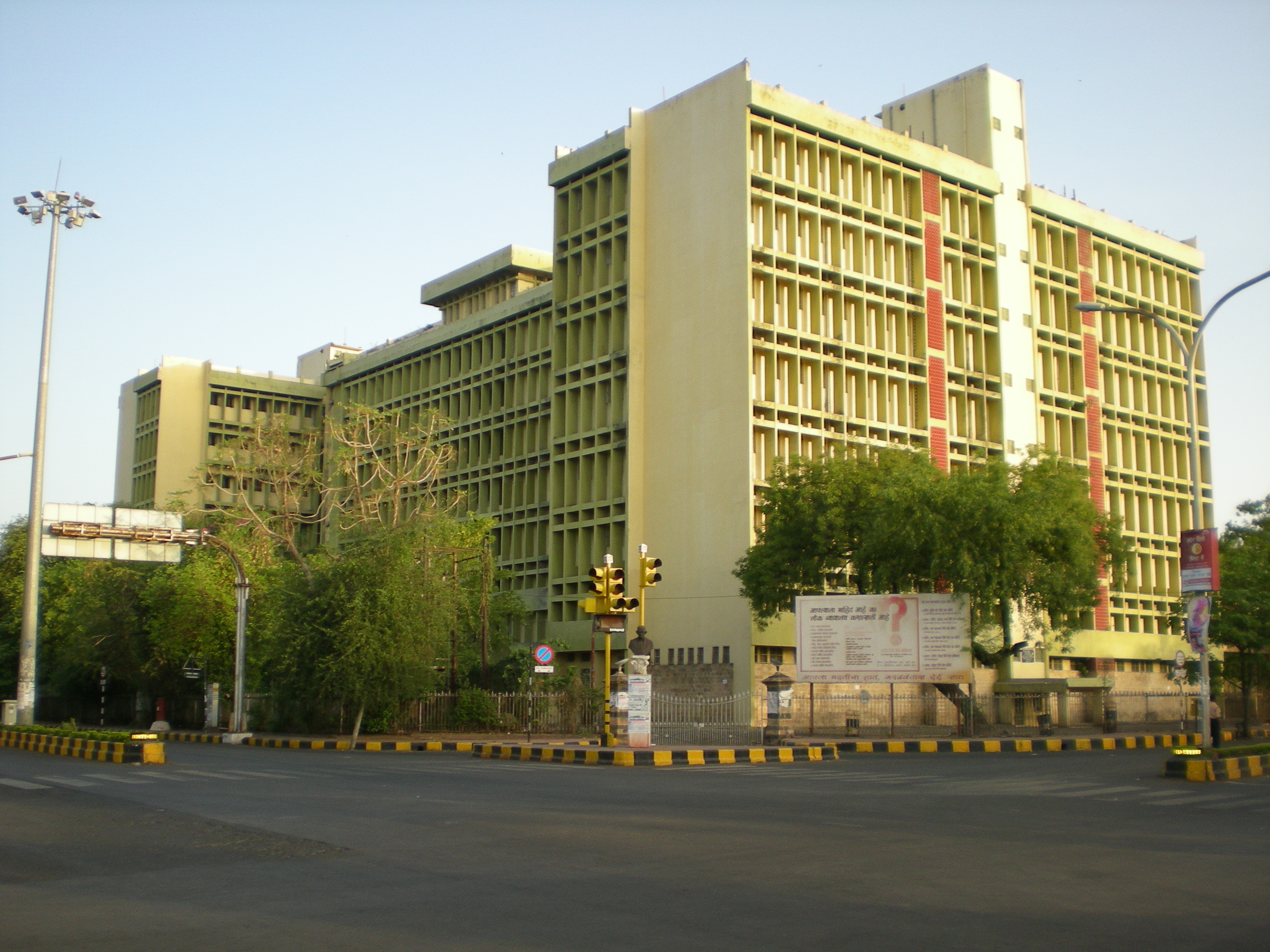 Reserve Bank of India, Nagpur